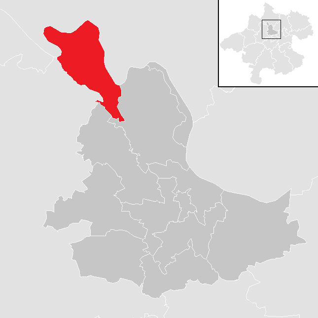 district Eferding